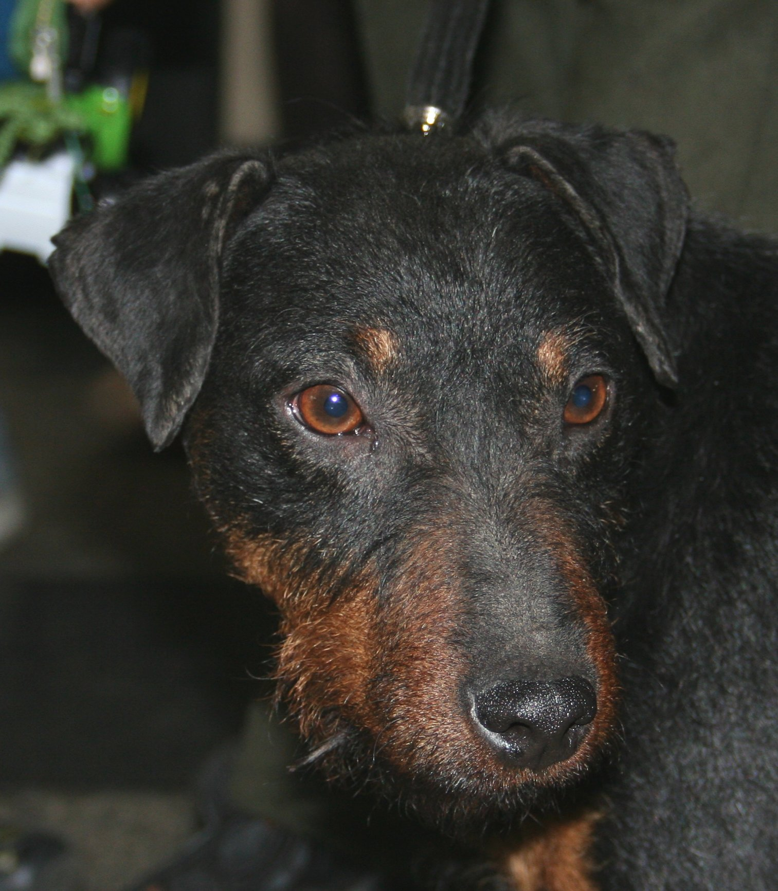 German Hunting Terrier during dogs show in Katowice, Poland